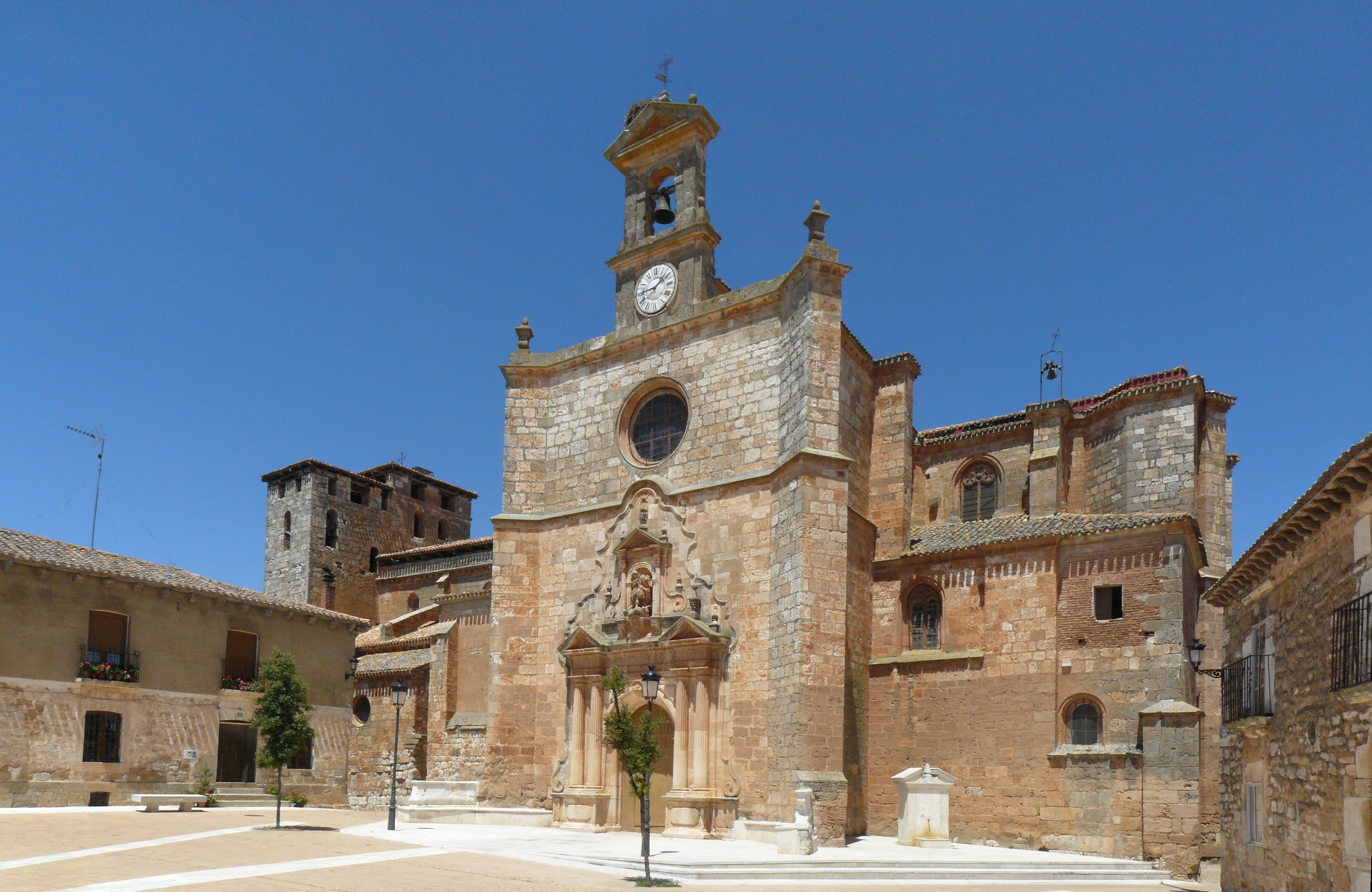 Mahamud church from the village square. Iglesia de Mahamud (Burgos) vista desde la plaza del pueblo.